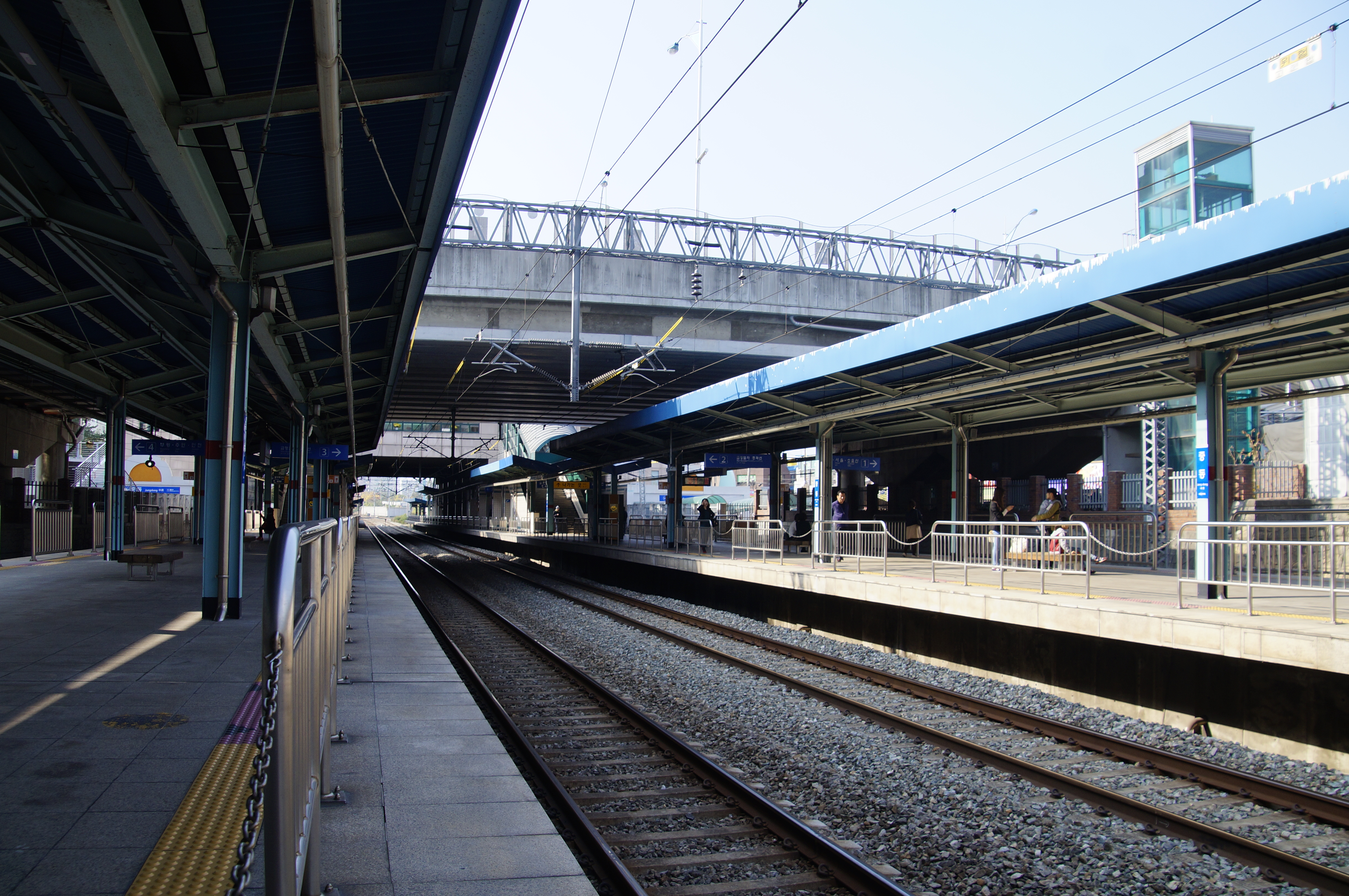 A view of Jung-dong Station on Seoul Subway Line 1.